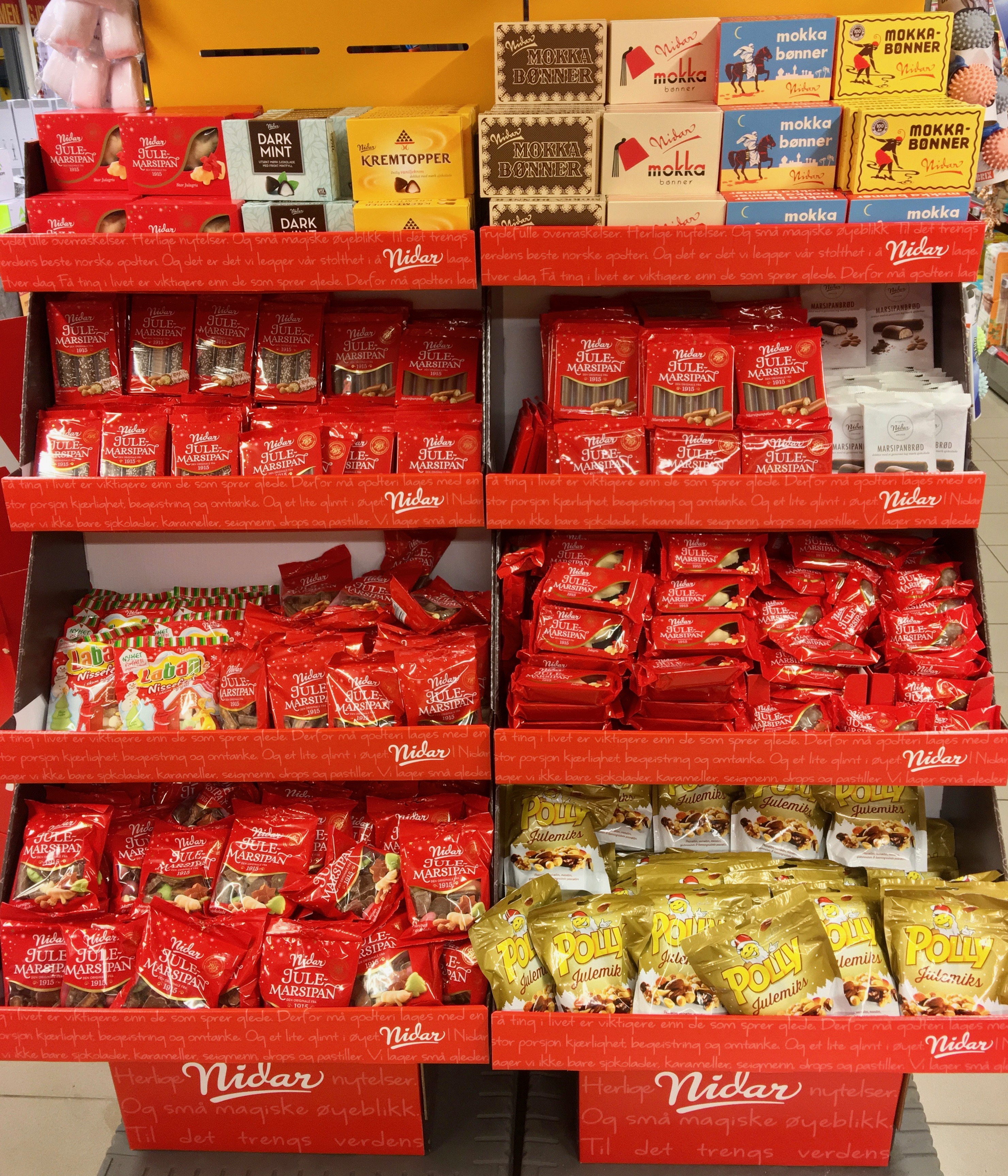 Chocolate products from Nidar (Mokkabønner, kremtopper, julemarsipan m.m.) in Extra (Coop supermarket), Sem, Norway. November 2017.